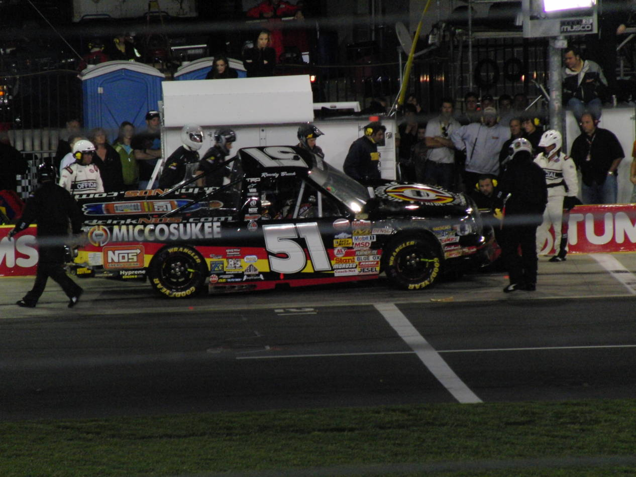 51 – Kyle Busch